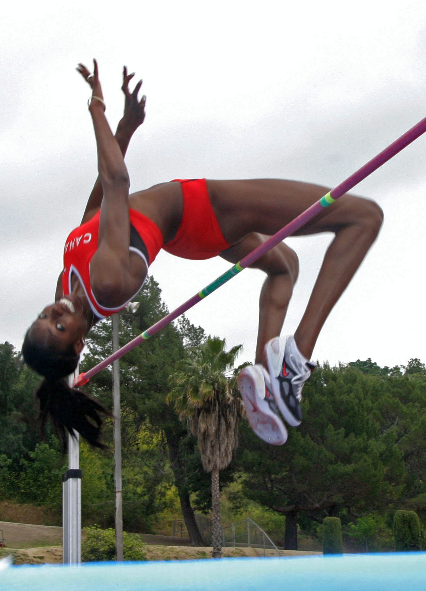 A picture of Nicole Forrester - High Jumper